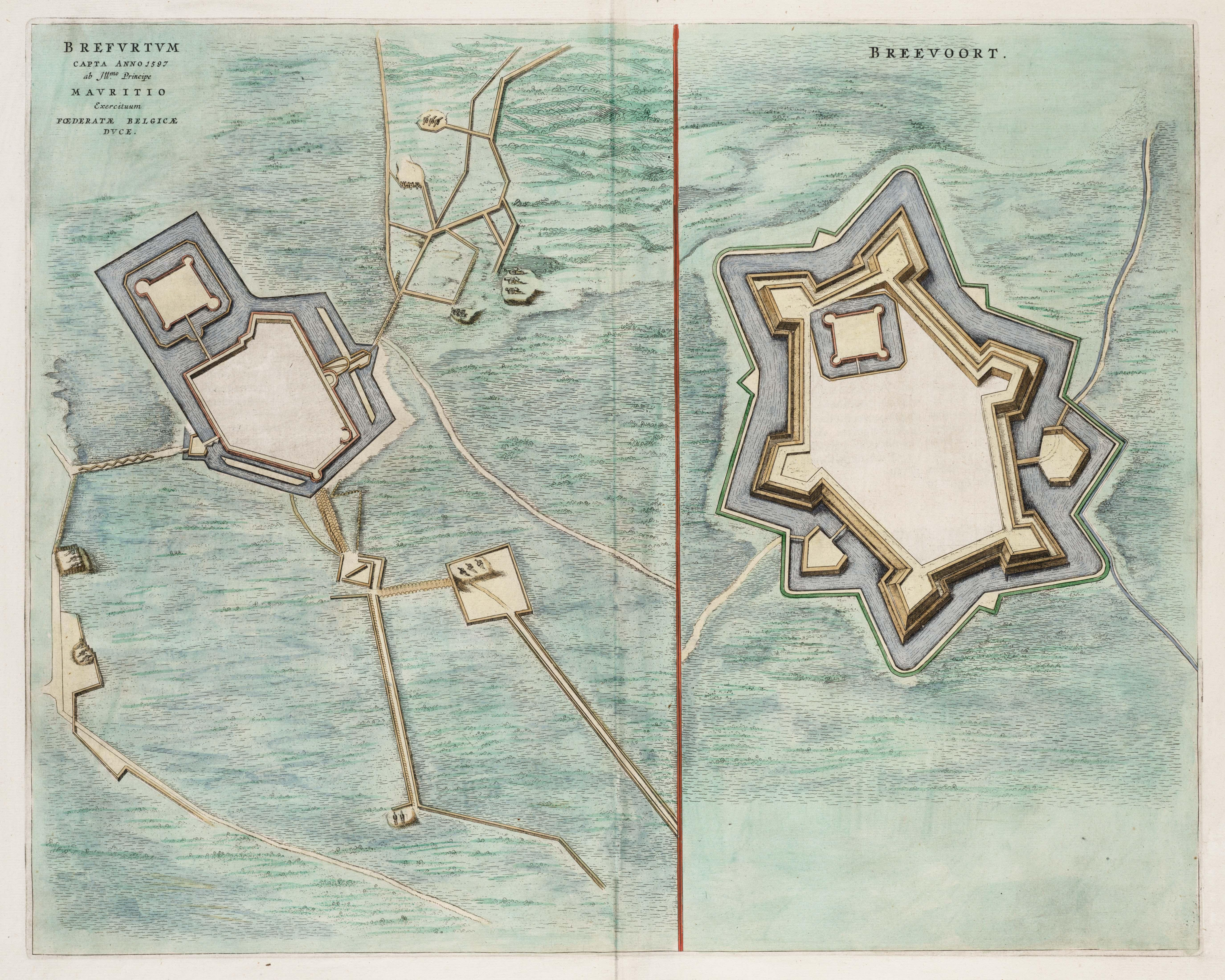 Map of the capture of Breevoort (Bredevoort) in 1597 by Maurice of Orange (left); map of Bredevoort anno 1649 (right)